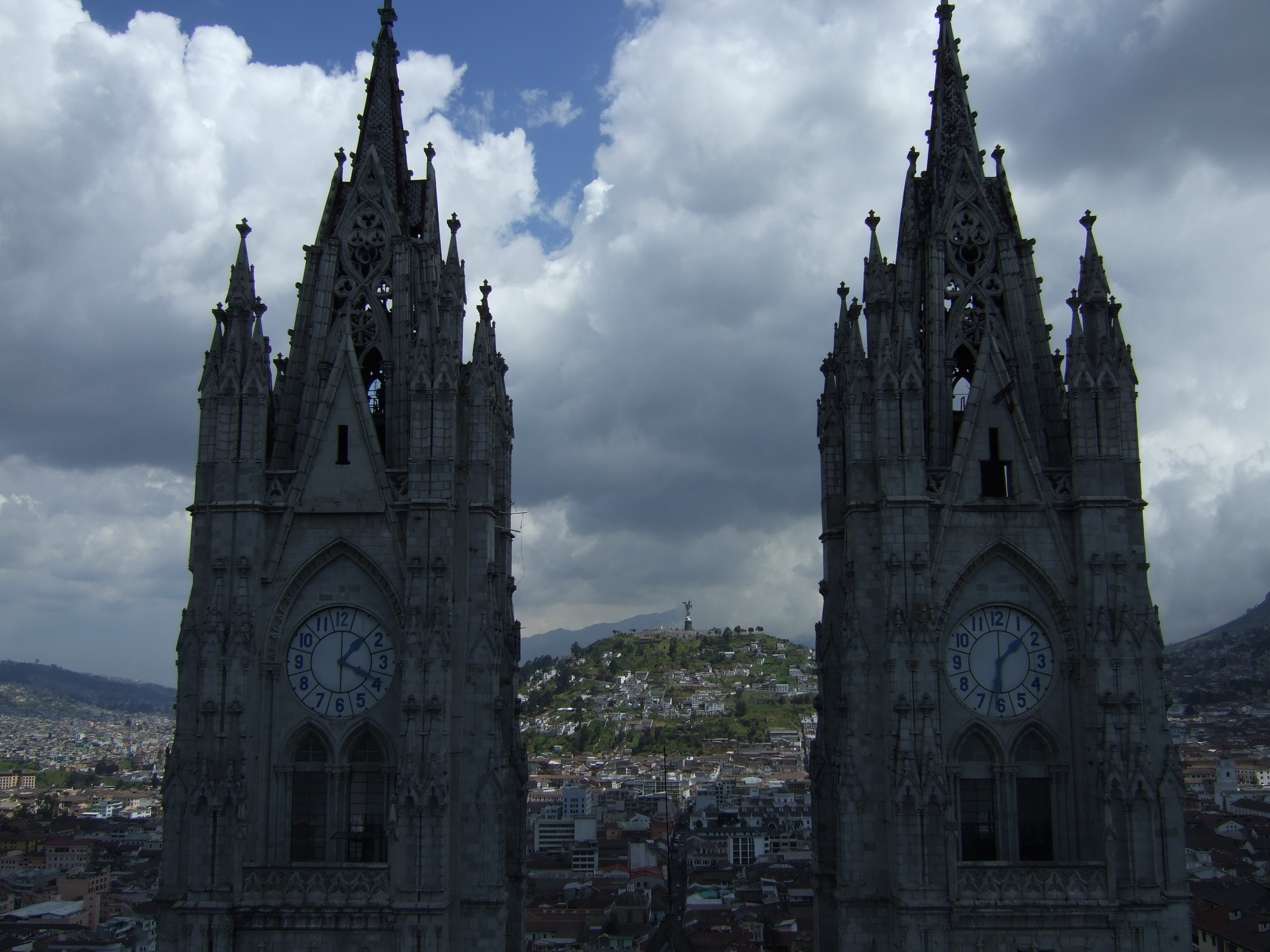 Quito, Ecuador. This is NOT the Cathedral of Quito, but the National Basilica of the Sacred Heart of Jesus